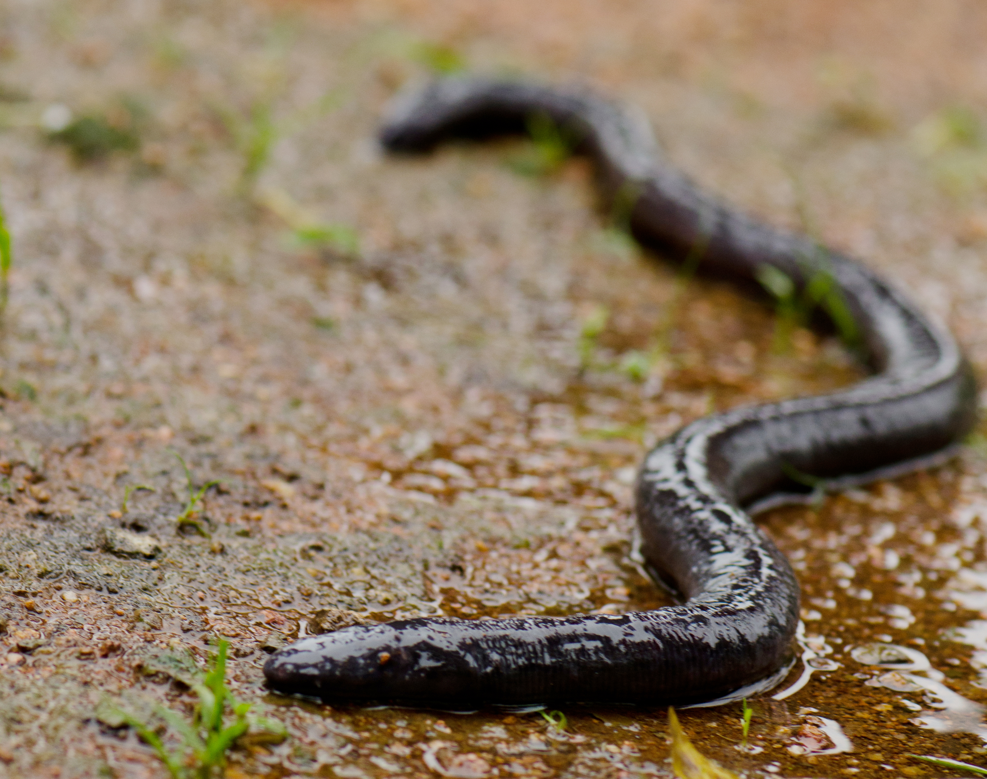 Bombay caecilian.